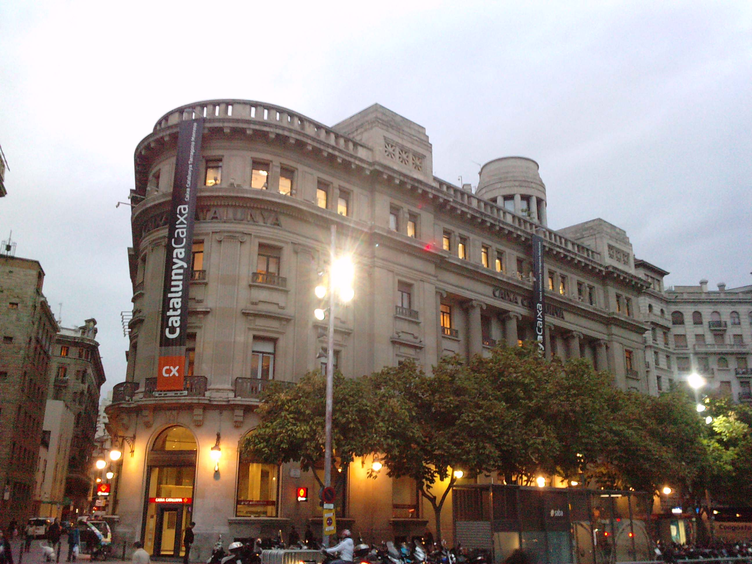 CatalunyaCaixa Headquarters. View from Cathedral square